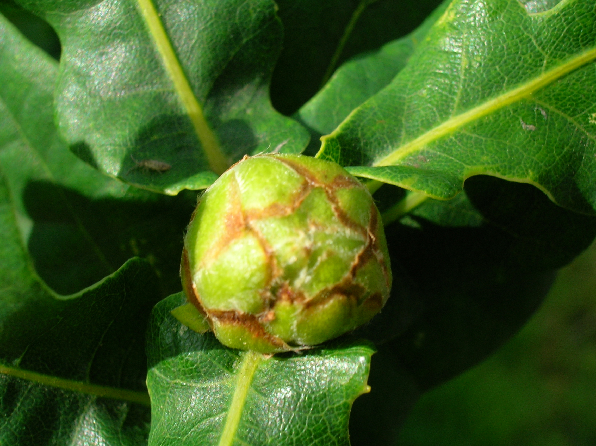 The Oak Artichoke gall caused by the insect Andricus fecundatrix. Chapeltoun woods, North Ayrshire, Scotland